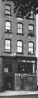 The home of Chester A. Arthur, 21st president of the U.S. Picture taken by National Park Service in 1976 and found at NPS website located here: National Park Service - The Presidents (Arthur Home)